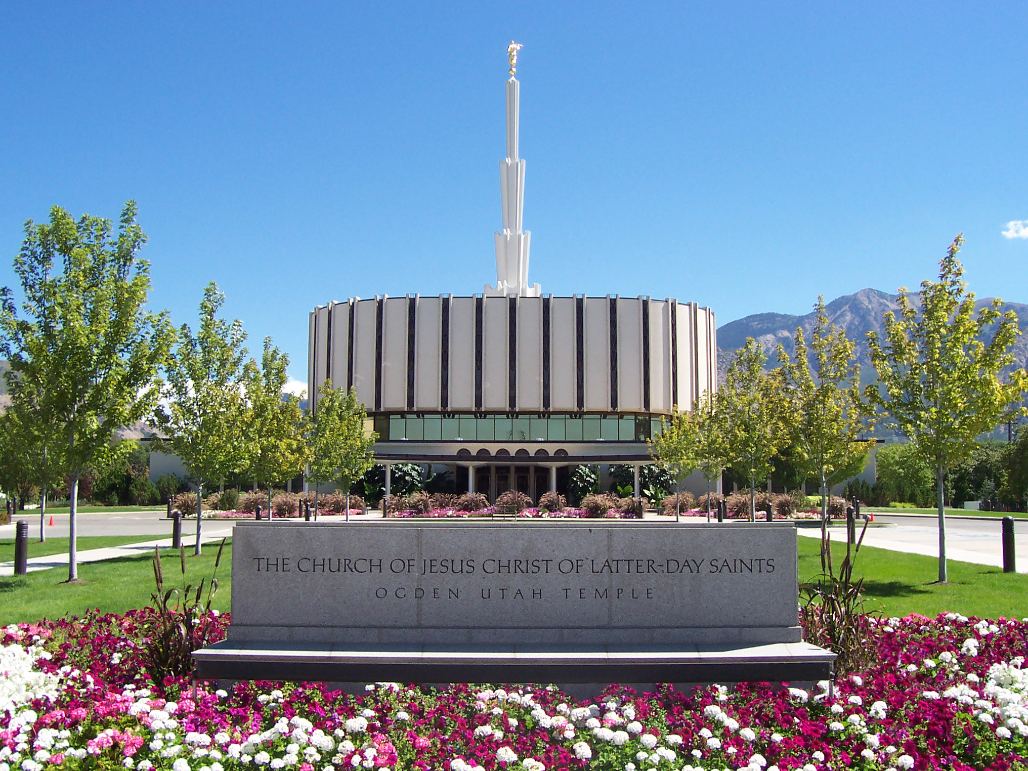 Ogden Utah Temple of The Church of Jesus Christ of Latter-day Saints